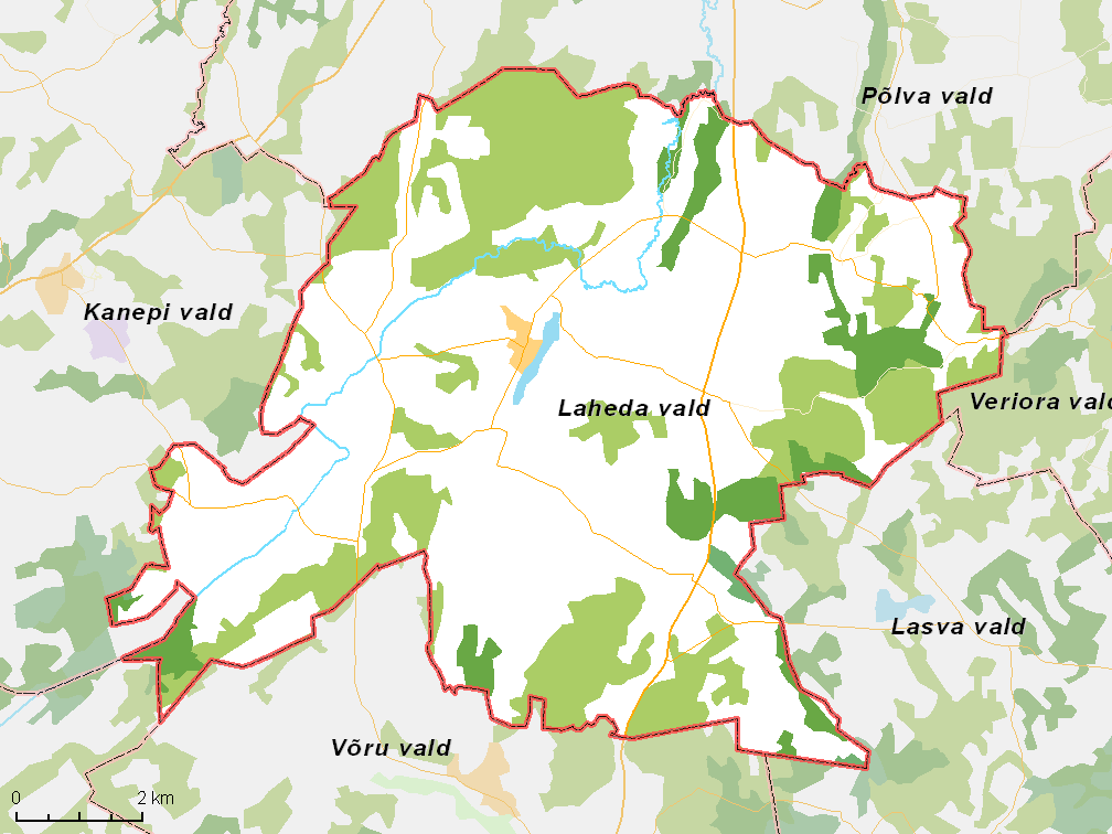 Map of municipality in Estonia